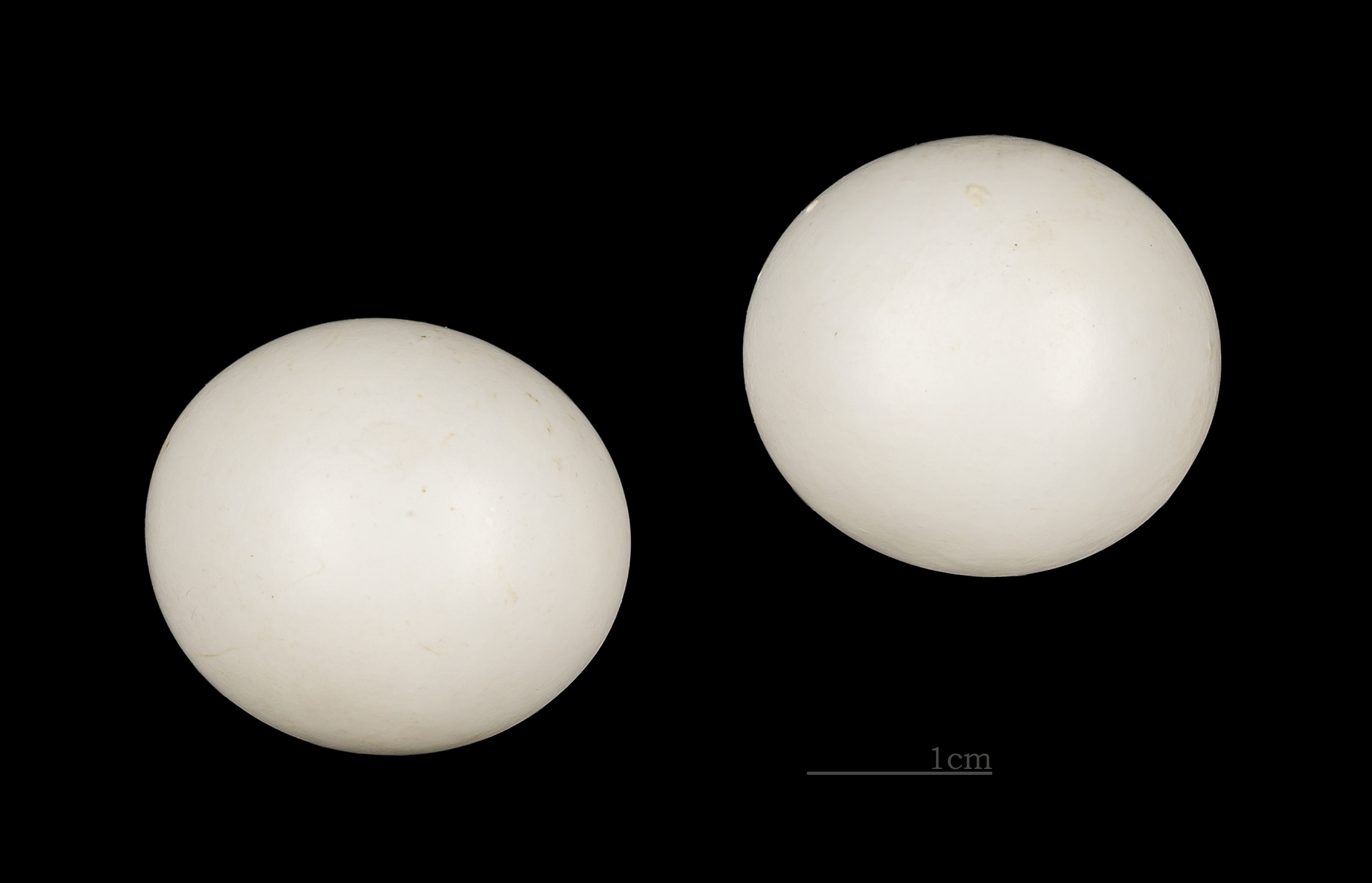 Egg of Grey-headed kingfisher. Collection of René de Naurois/Jacques Perrin de Brichambaut.